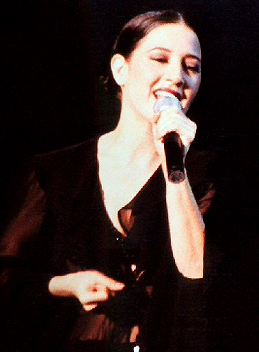 Donna De Lory crop